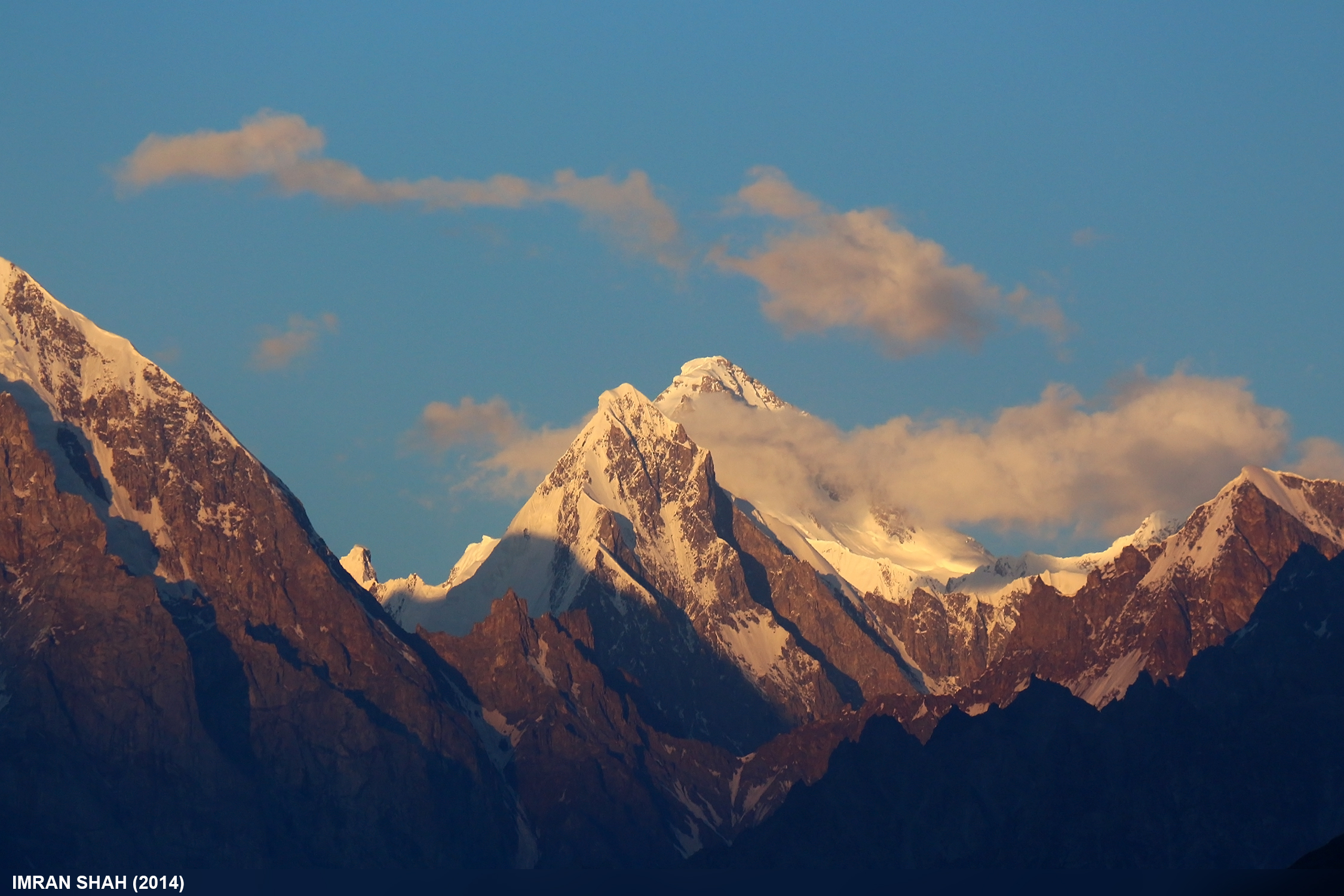 Trivor (7577 m) in the background, viewed from Aliabad